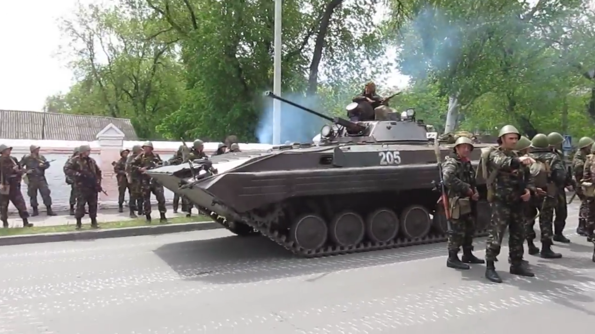 Ukrainian Army soldiers and BMP-2 IFV in Mariupol during a confrontation with civilians on 9 May 2014.